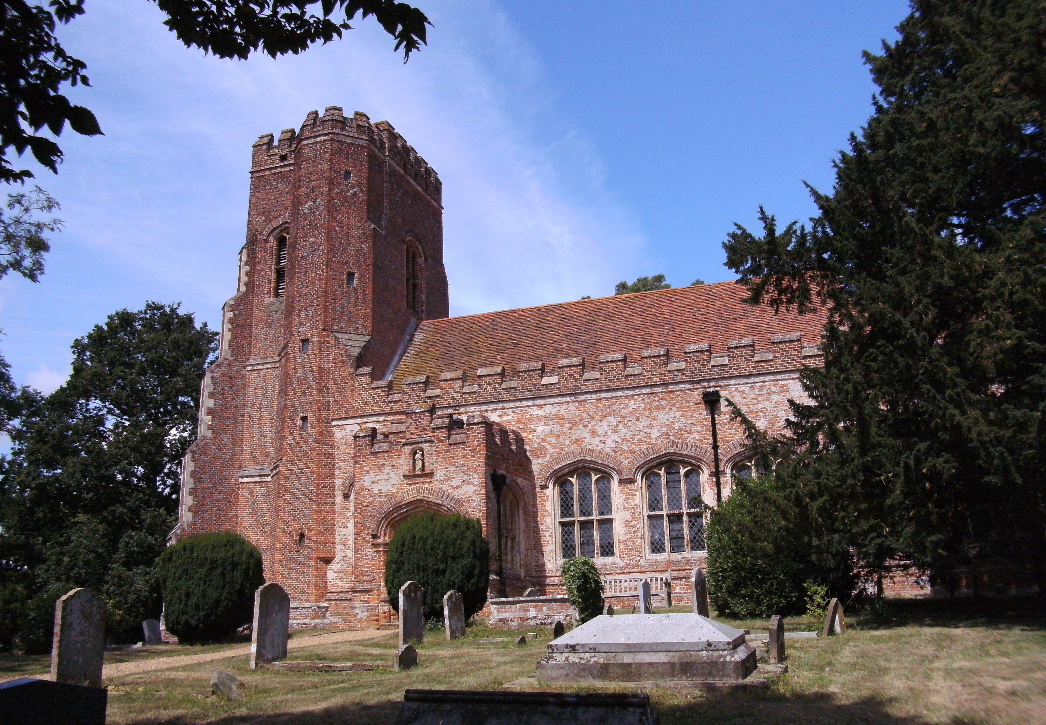 St Mary the Virgin, Layer Marney, Essex